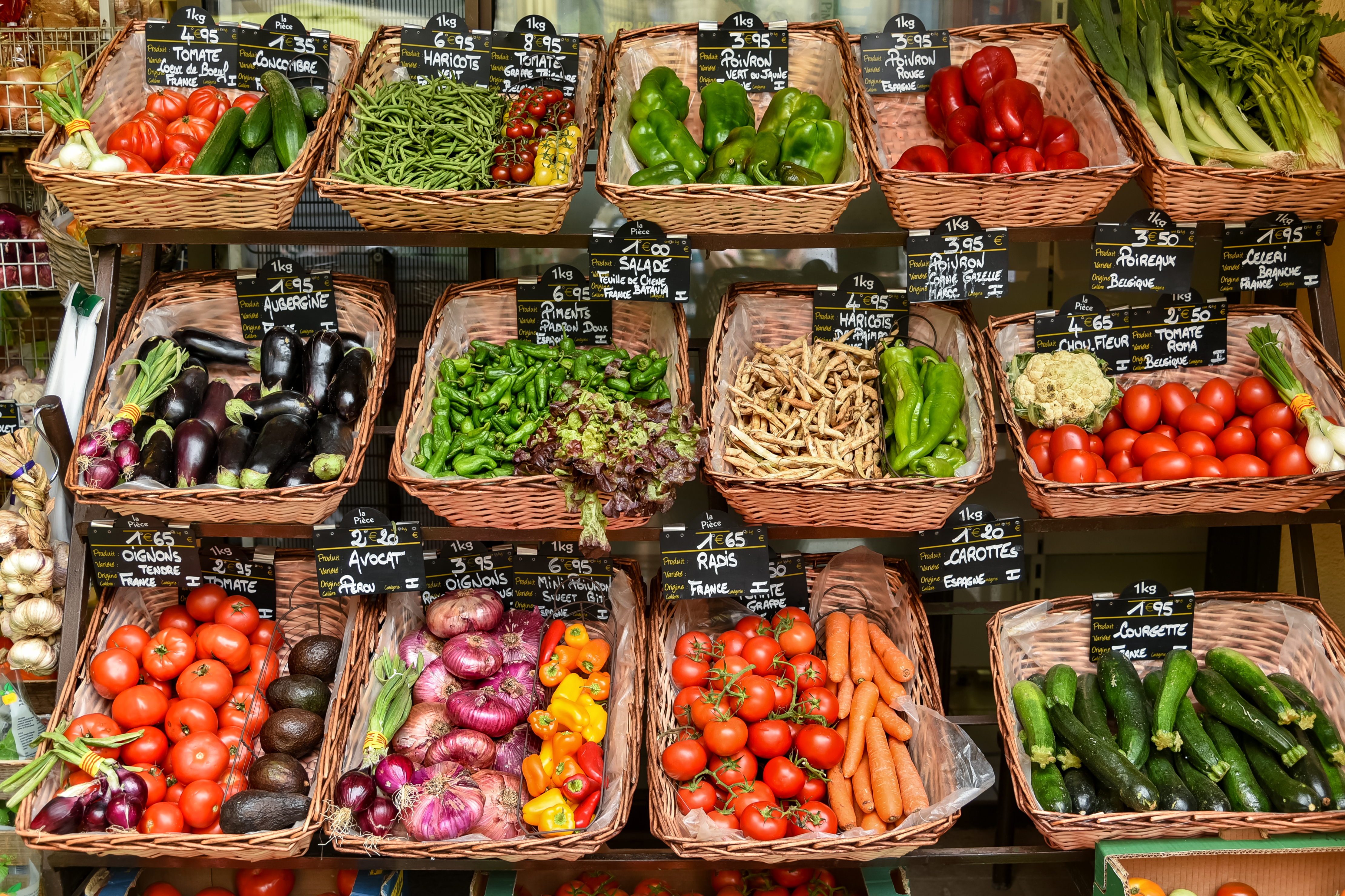 Collioure (France)